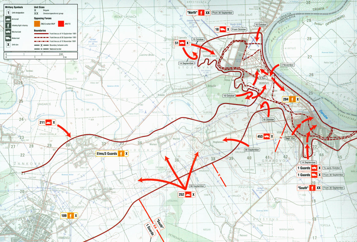 Map of the battle of Vukovar in eastern Croatia, September-November 1991 Also available at: This image is available from the United States Library of Congress's Geography & Map Division under the digital ID g6841sm.gct00210. This tag does not indicate the copyright status of the attached work. A normal copyright tag is still required. See Commons:Licensing for more information.